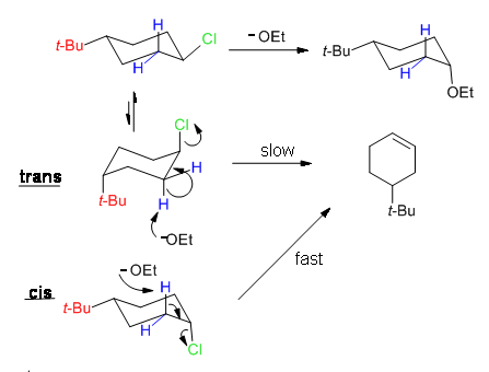 Bimolecular elimination,E2 reaction mechanism operating on cyclohexane conformers.